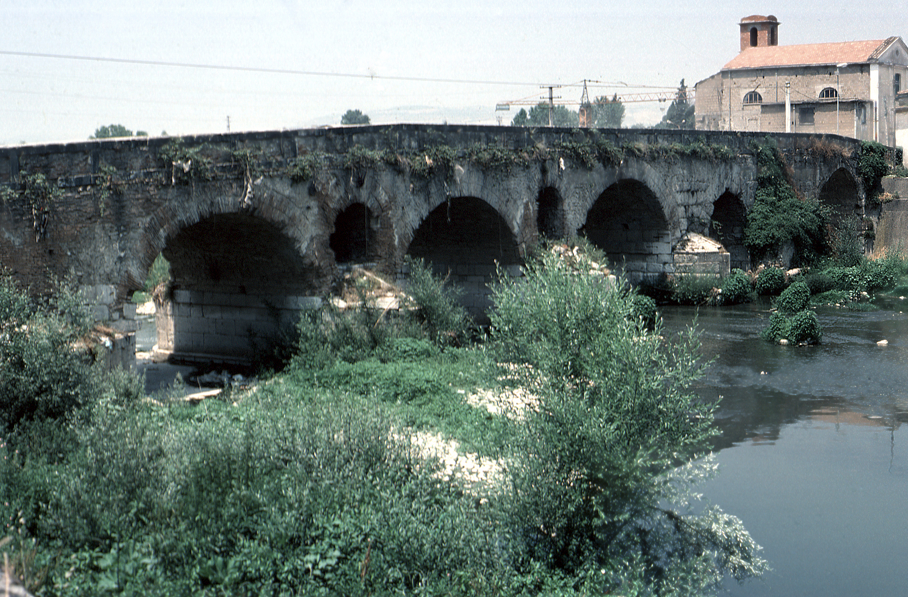 AWIB-ISAW: Beneventum, Ponte Leproso (II) View of the ancient Roman Ponte Leproso at Benevento, from upstream. This bridge carried the famous Via Appia over the river Sabato. by George W. Houston (1969) copyright: 1969 George W. Houston (used with permission) photographed place: Beneventum (Benevento) [1] Published by the Institute for the Study of the Ancient World as part of the Ancient World Image Bank (AWIB). Further information: [2].